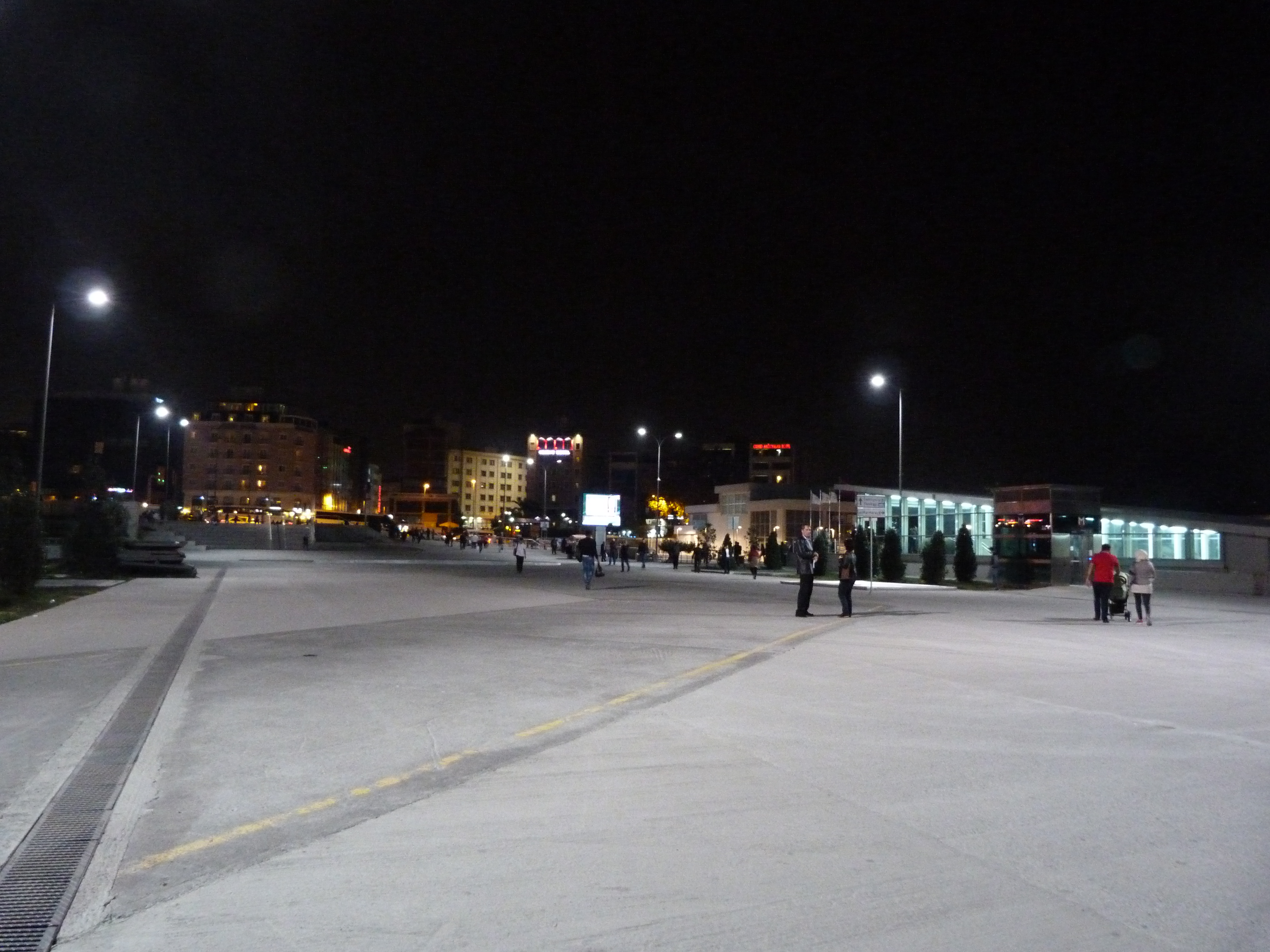 Live on the 24th of october, 2014. Yenikapi Metro Station. Downtown Istanbul. ©© Derzsi Elekes Andor, Budapest, 2014, Published in the Metapolisz DVD line. You are authorised to use this photo under Creative Commons – even for commercial, for profit purposes. The photo must be attributed to Derzsi Elekes Andor. All of the photos and vids in the Metapolisz DVD line are under Creative Commons and can be used even for commercial – for profit – purposes. Recommended Citation Derzsi Elekes Andor: Metapolisz DVD line